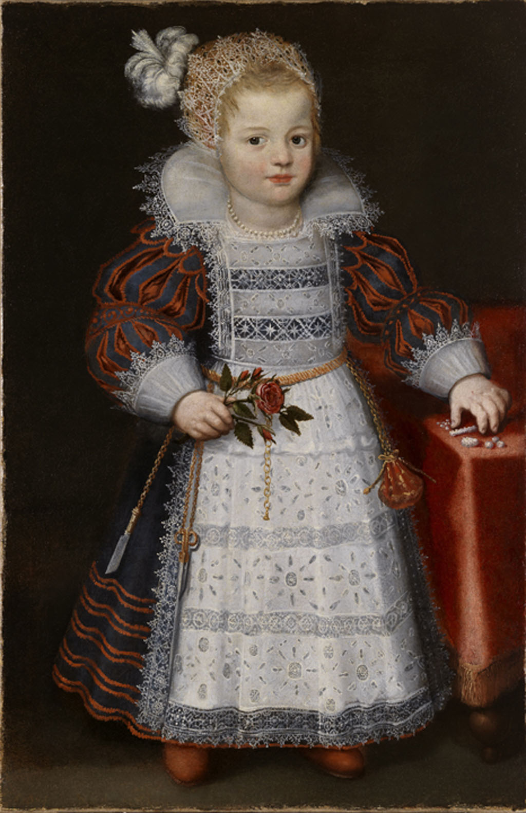 Portrait of a Young Girl standing in an interior and holding a bunch of roses. She wears a lace apron and a gold chatelaine hanging from a gold ropework belt.